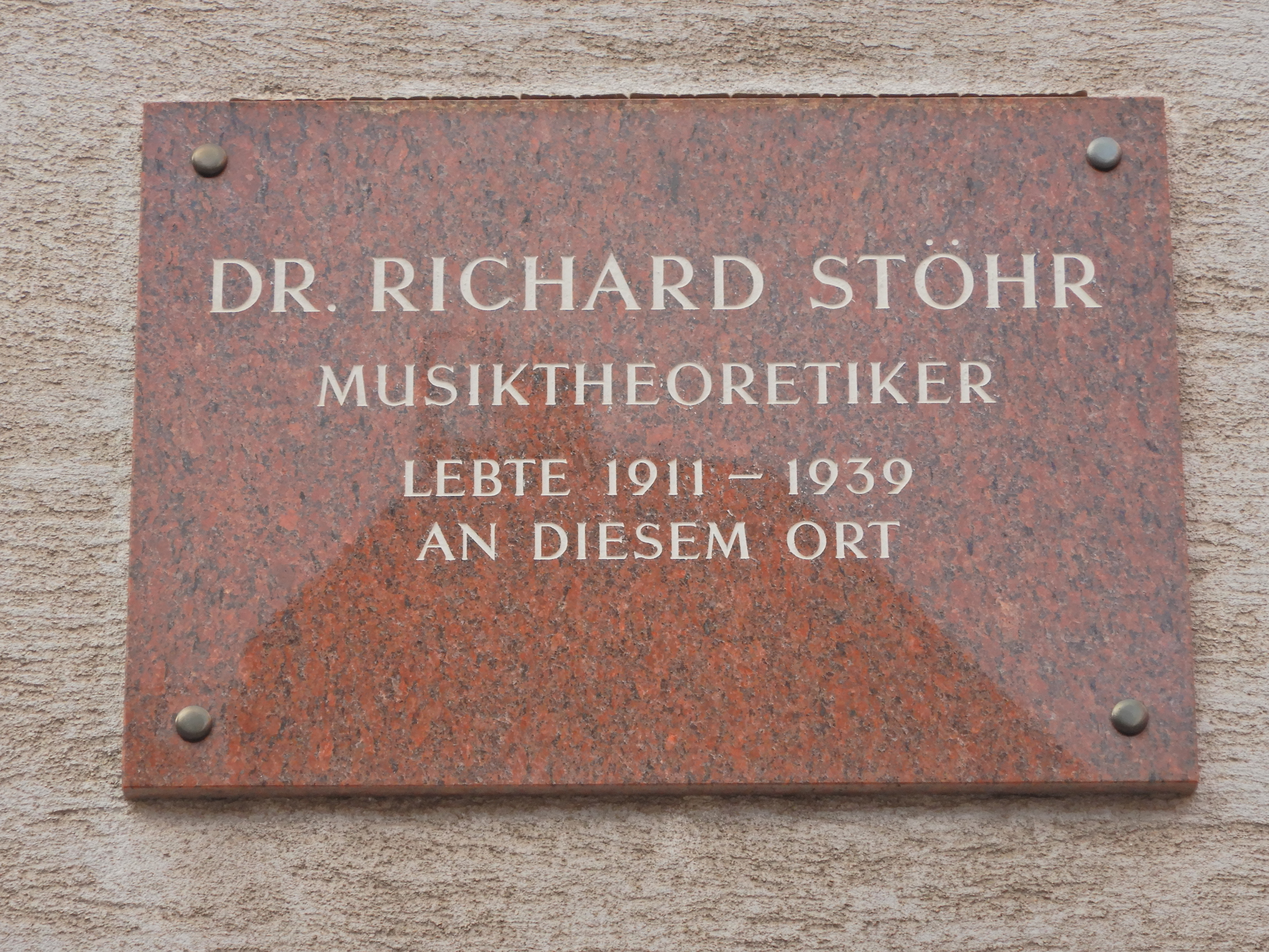 Memorial plaque to Richard Stöhr